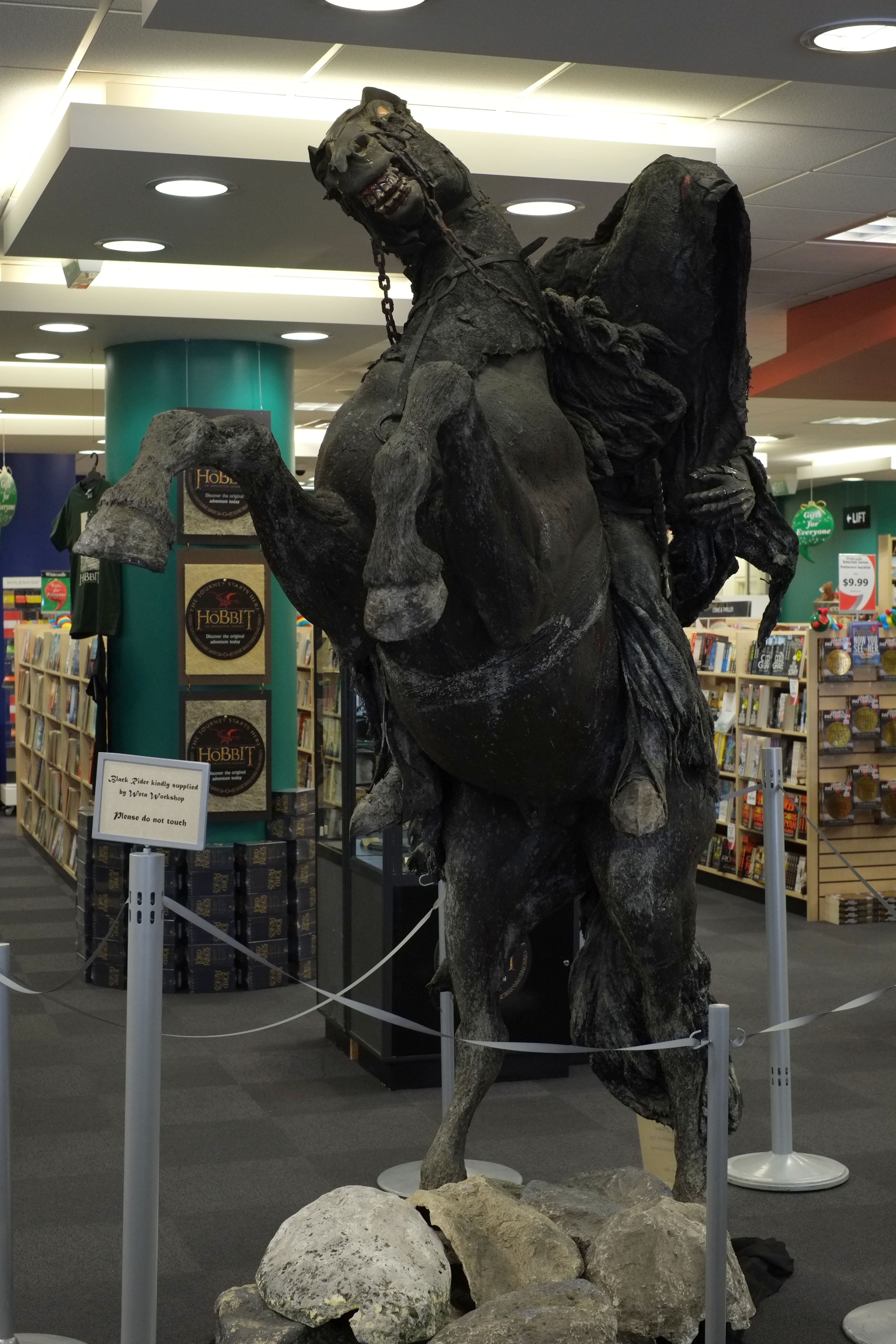 Ringwraith sculpture in Whitcoulls, Wellington at the time of the film premiere of the first part of The Hobbit trilogy